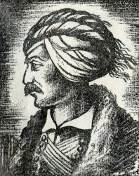 Portrait of Hadzhi Hristo Bulgarin, Vodensko